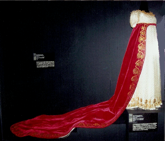 Last dress of Napoleon's Coronation / Countess Bérenger, wife of Count Bérenger (1767è1850)